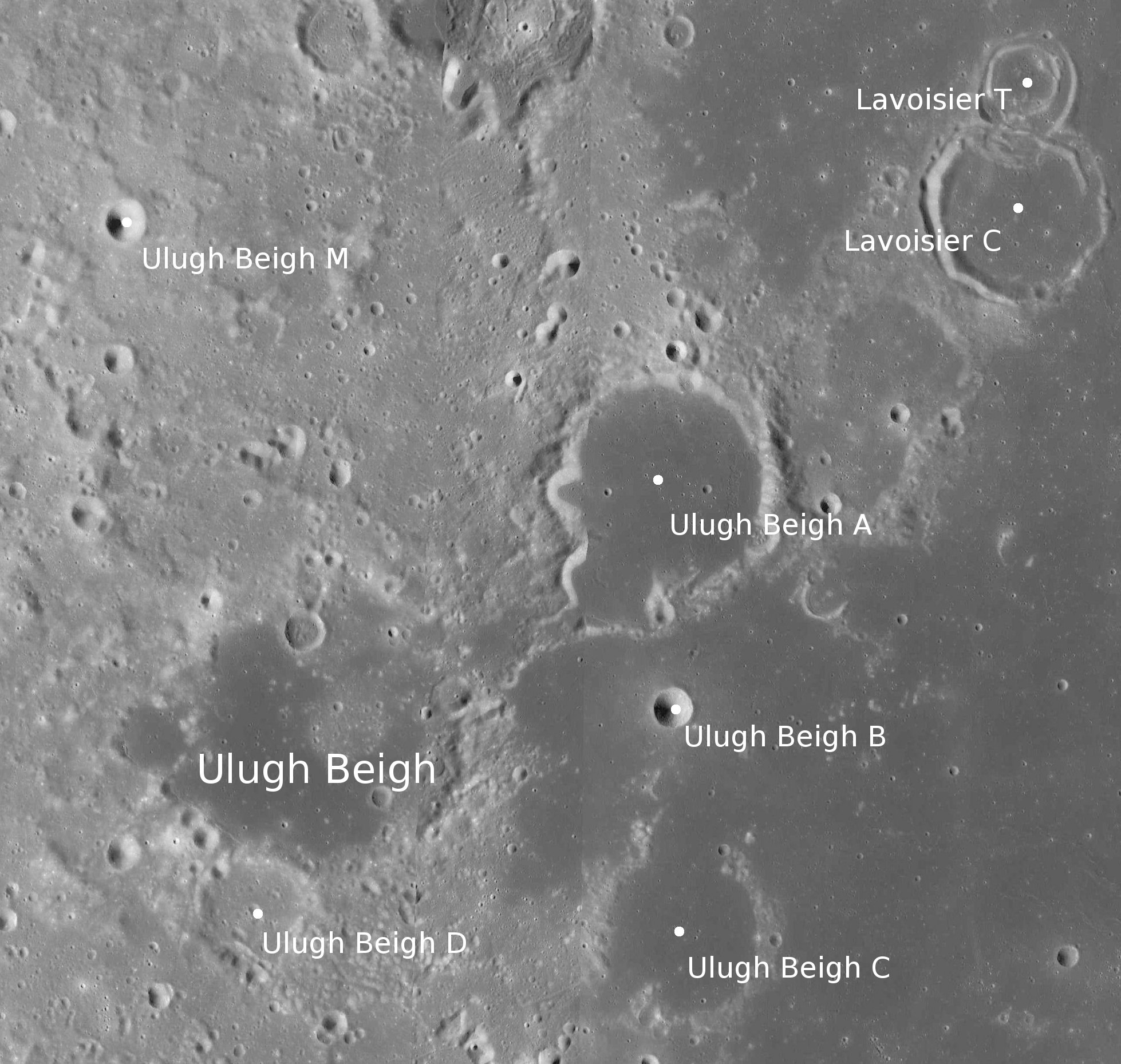 Crater Ulugh Beigh with satellite features (detail of LRO - WAC global moon mosaic; Mercator projection)